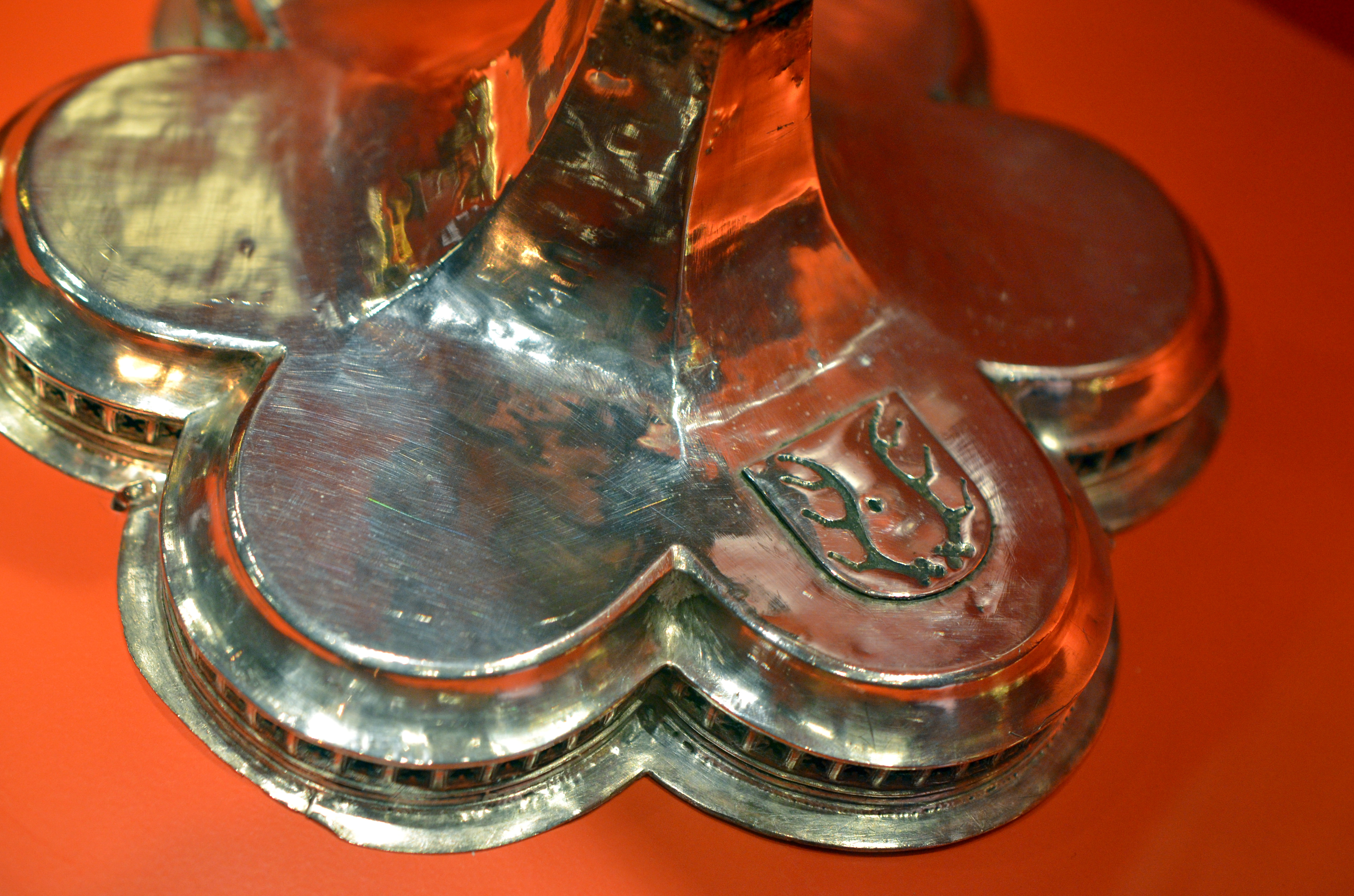 Collection of the Stadtmuseum in Rapperswil : Gothic reliquary, estimated to be property of Countesse 'Elisabeth Mätsch' (Counts of Toggenburg), 1440, church treasury of Stadtpfarrkirche St. Johann respectively former Rüti Abbey. Spätgotisches Straussenei-Reliquiar um 1440. Am Knauf M-A-T-S-C-H (Elisabeth Mätsch †1442, Gemahlin von Friedrich VII (†1436) von Toggenburg. Laut Zettel nach Bruch geflickt. «Anno. 1725. ist diss Ey durch den Sigristen Hanss Baltasar Büoller ohn Verstähens ab dem Altdar in boden gefelt worden, und in 54. Stückhlin zersprungen, undt alda Stückhlin uf'behalten worden drey sindt aber volkomen verlohren gangen. Anno 1727 sind von Herren Custer Herr Sebastian Ziegler die ohvermelte 54. Stückhlin dem Mahler Joseph Antoni Hunger übergeben, welche er wider Zuosam in ein Ey gericht im Mertzen , und wider in silbriges gefäss eingericht, welches nebet anderen 24 Stückhen Silber aus der Sackharstey gestollen worden den 22. Hornung 1727. Und durch sonderbaren Schickhung Gottes .inert 17.Tagen bekomen alss ist wider von den Goldschmiden frisch uss gebutz worden, uf den heiligen Tag Ostern als den 13.April den Altdar Zierung schön gestalt und gesehen worden, ich Mahler Hunger gab das Ey wider als schier wie gantzer von handen den 9.April 1727. geben, diss imskünftig Zum nachricht.»